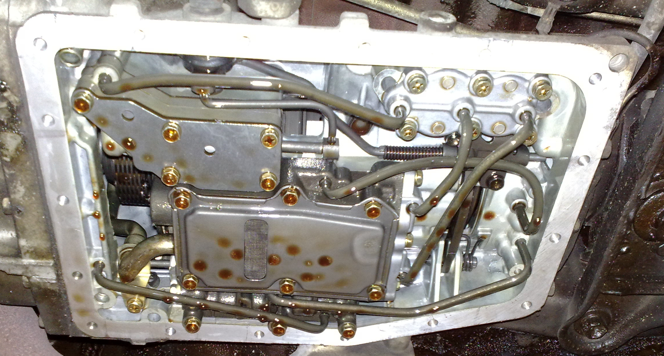 Toyota Tercel's 3-speed automatic transmission from below. Model A55.